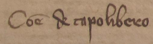 Capoliveri 1260